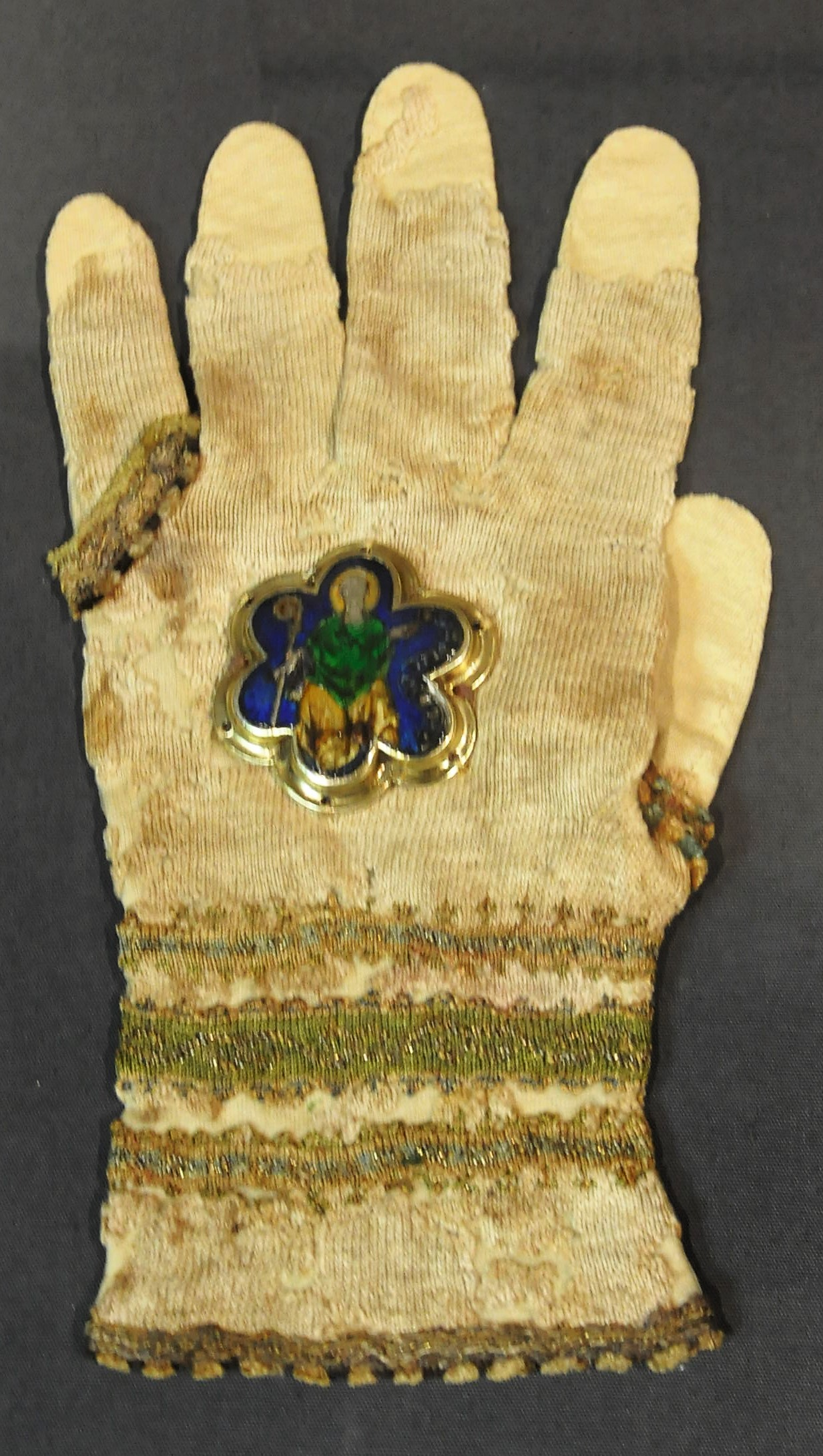 The "Glove of St Adalbert". Glove: Egypt or the Islamic part of Spain, about 1190 to 1330. Fibule: Upper Rhineland, 1320 to 1340. Praha, Metropolitan Chapter of St. Vitus, Inv. No. A third